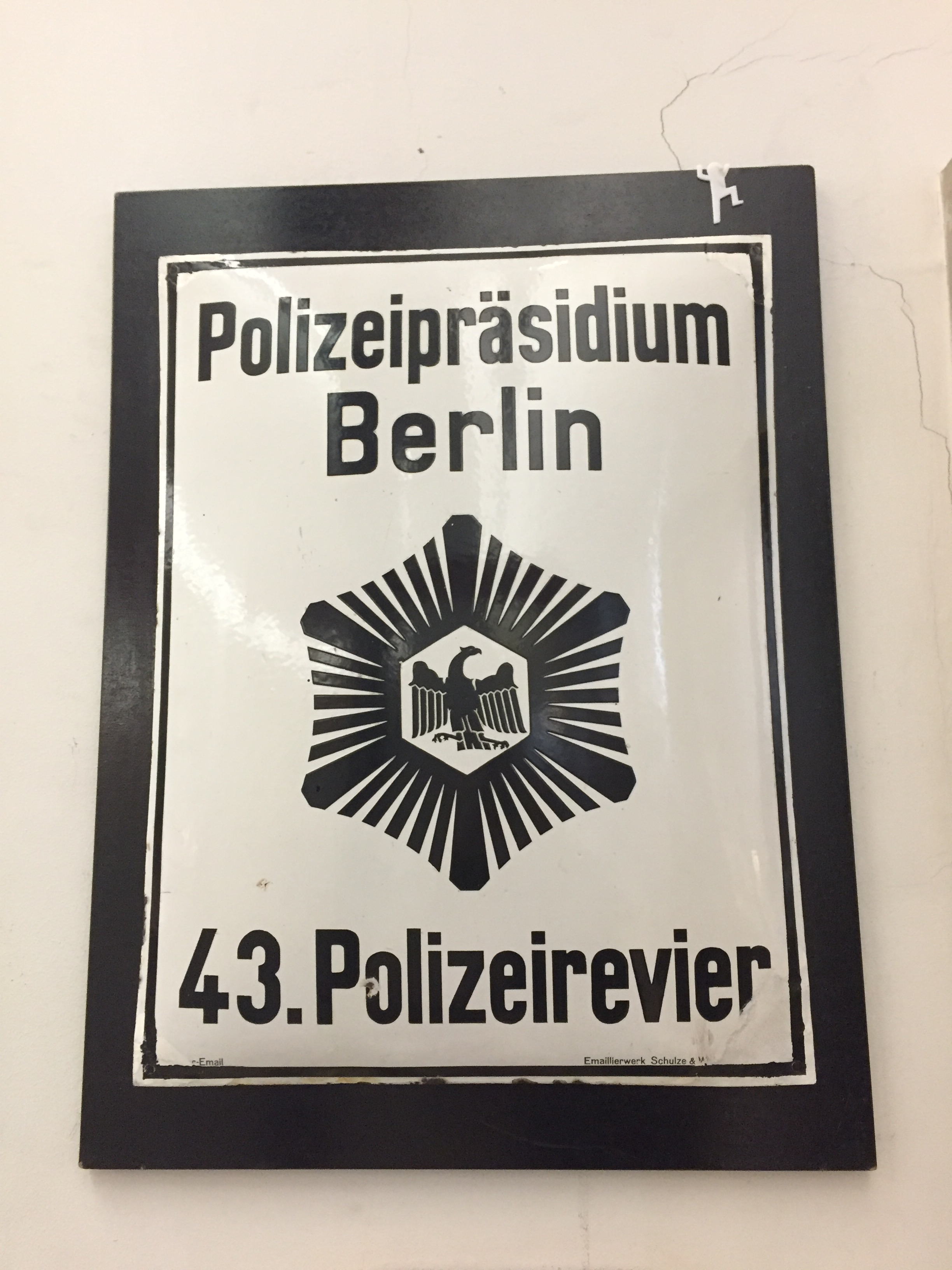 Police museum in Berlin